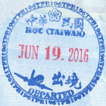 An exit stamp at Taoyuan International Airport in a Republic of Korea passport.